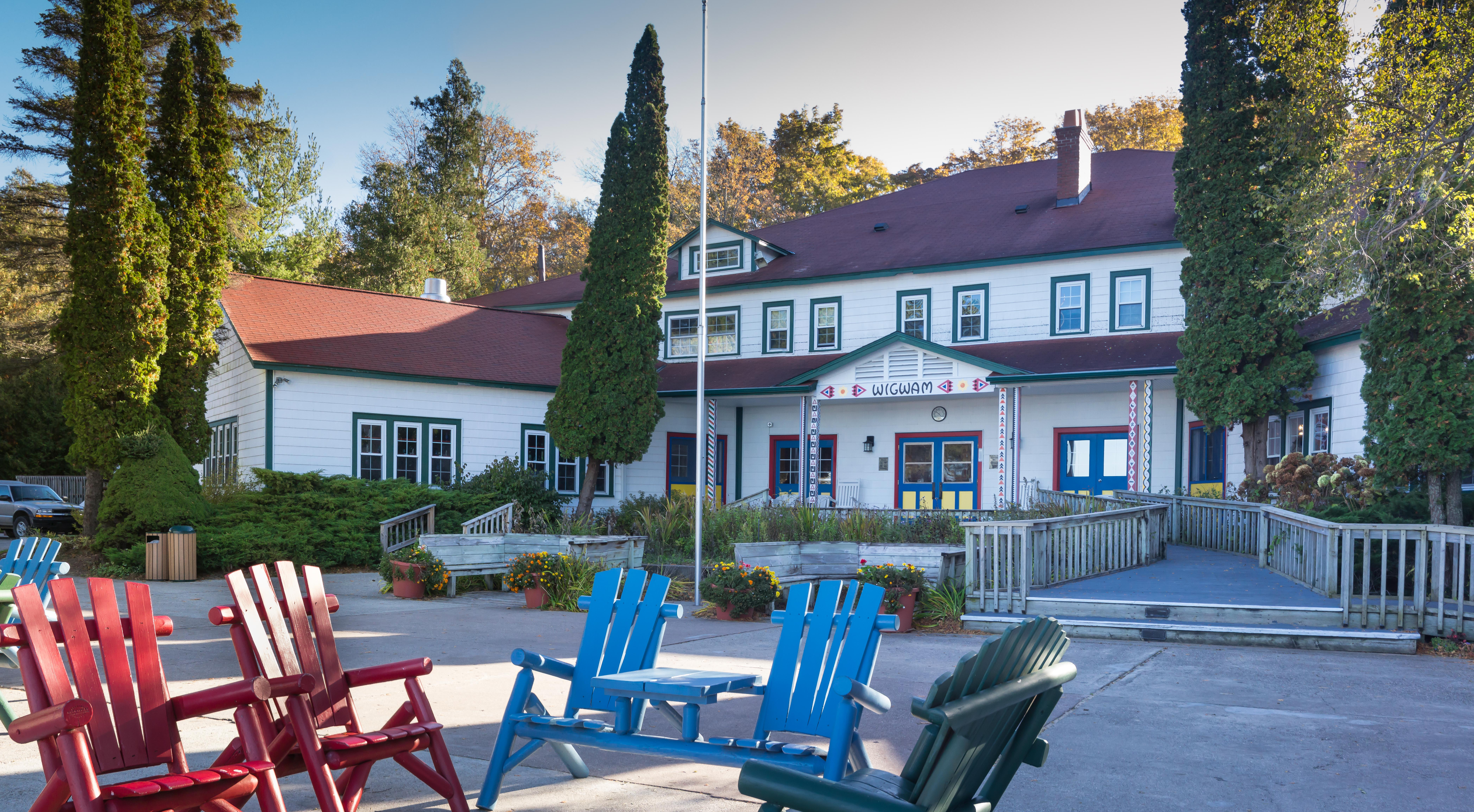 Wigman Lodge-Camp Arcadia